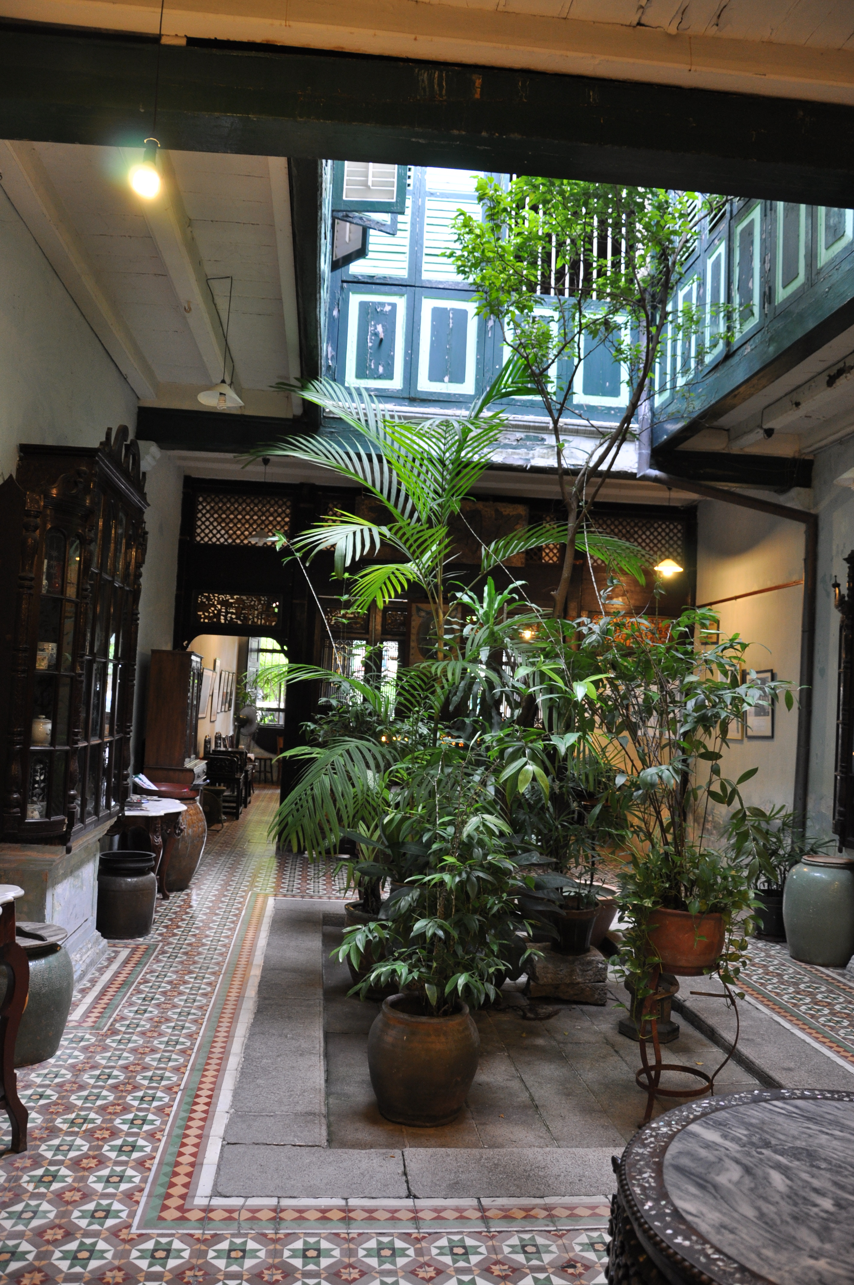 This is the inner courtyard of the Wing Sun company. Besides being the base for Dr. Sun Yat Sen's revolutionary movement, ths place, located at 120 Armenian Street was also where Malaysia's oldest Chinese newspaper, Kwong Wah Jit Poh, was founded, in 1910. I loved the indoor plants that grow nicely due to the open courtyard. The floor tiles seen here are of a geometrical design popular with the Peranakan, in peach, brown and green shades.(Georgetown, Penang, Malaysia, Nov. 2013)